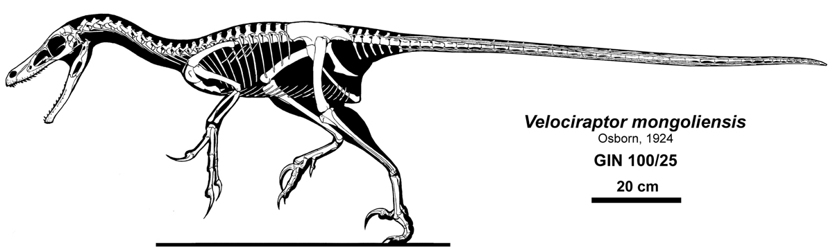 Reconstructed skeleton of Velociraptor mongoliensis